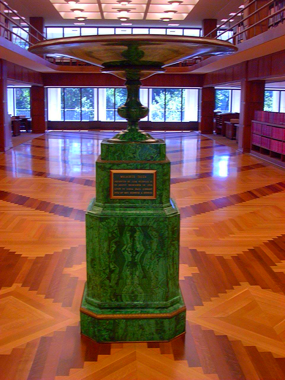 "The Tazza", one of the largest pieces of malachite in North America and a gift from Czar Nicholas II, stands as the focal point in the center of the room. Parquet wood floors, warm oak paneling and bookshelves, and large windows that overlook the south lawn provide an inviting and comfortable atmosphere.